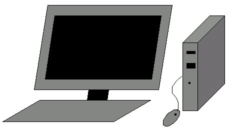 Desktop computer